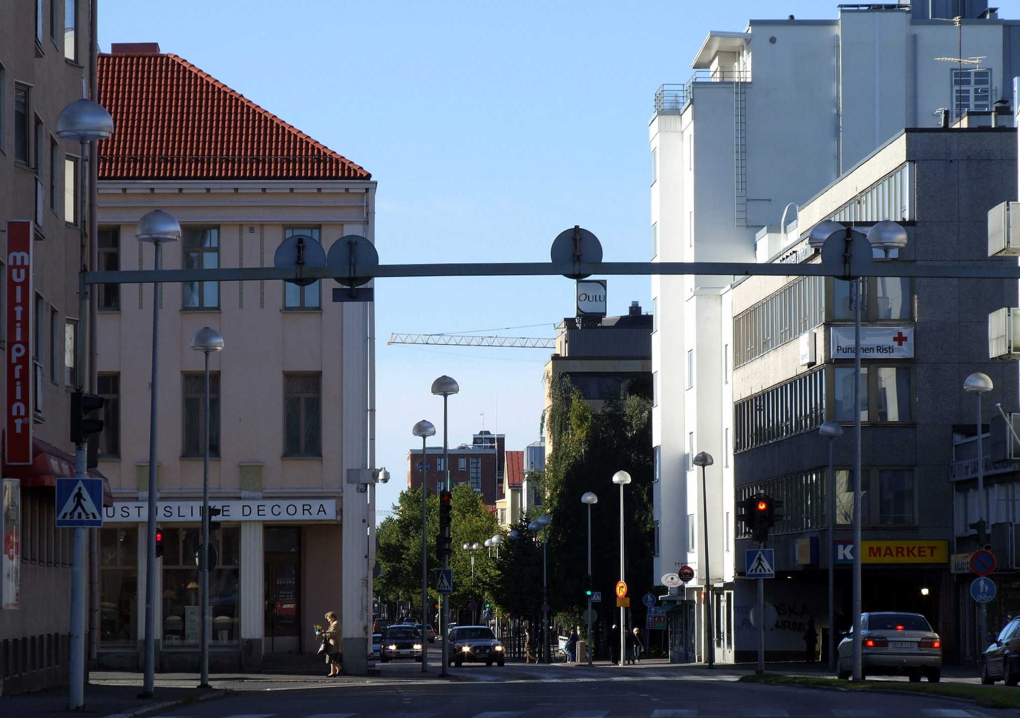 Uusikatu street in the central Oulu, Finland.